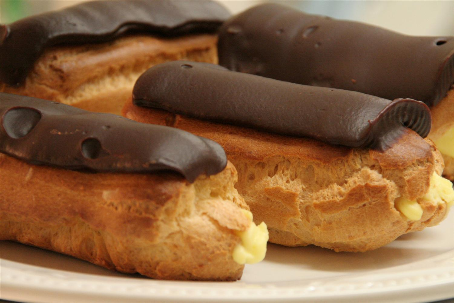 Eclairs with chocolate icing at Cafe Blue Hills.